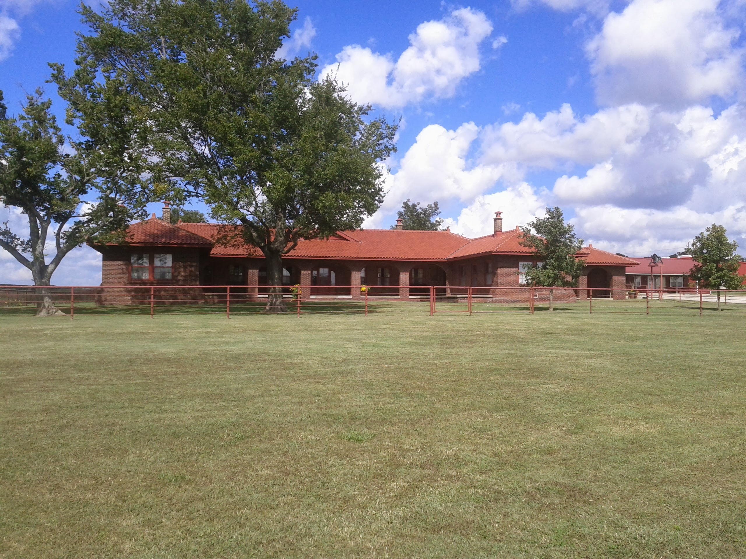 picture of the front of the chapman-barnard ranch headquarters